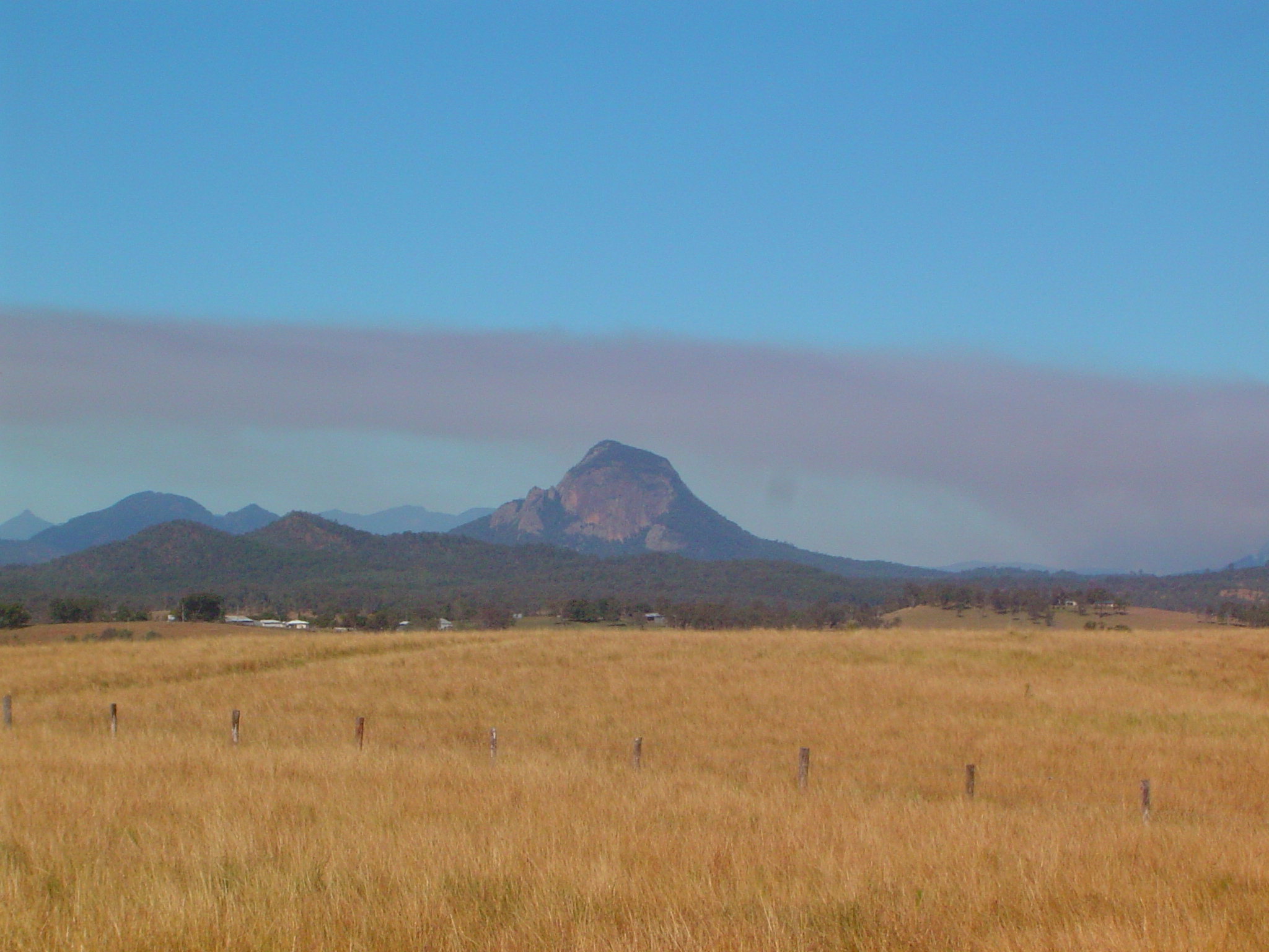 Mount Greville viewed from the west